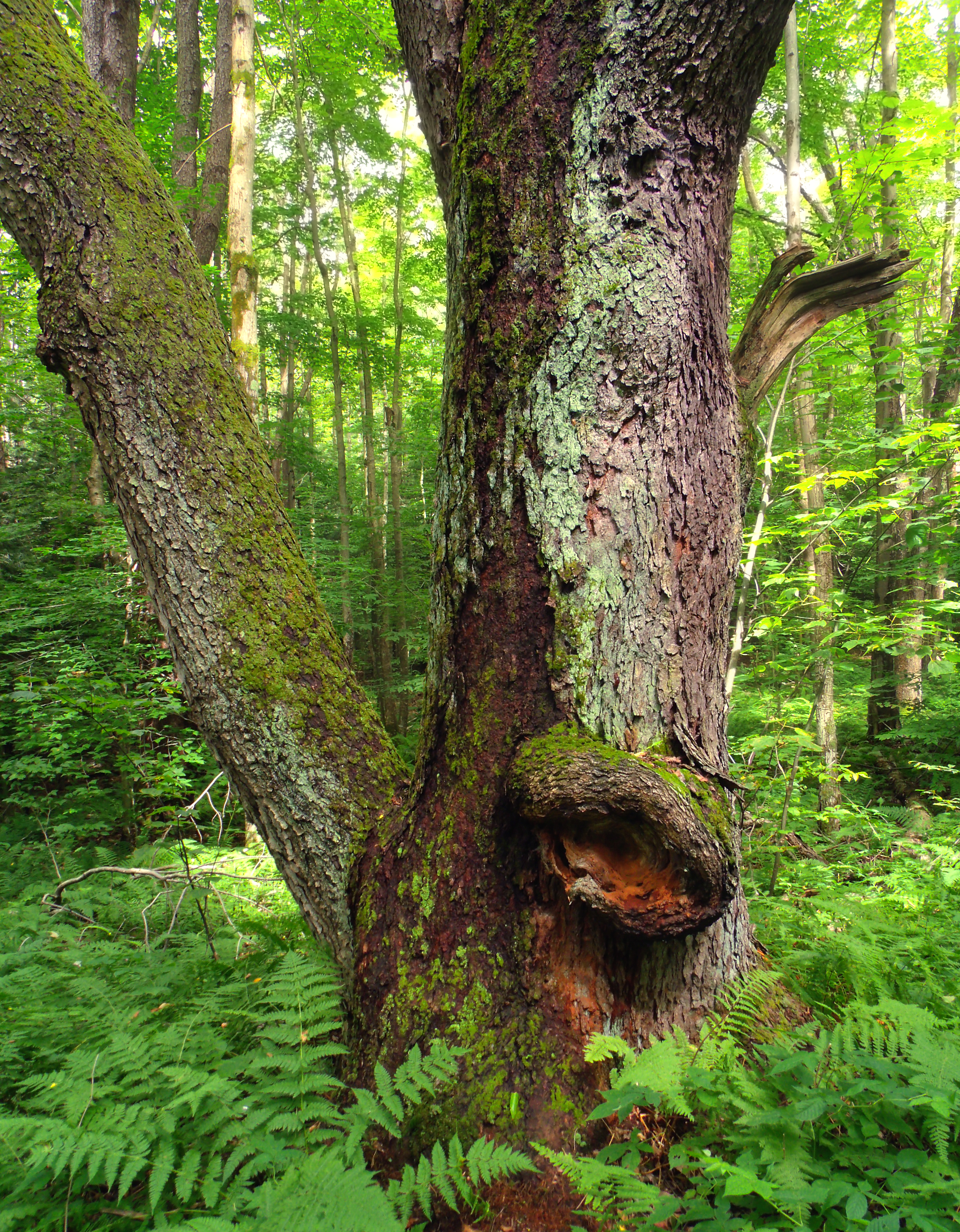 Old, multiple-stemmed black cherry (Prunus serotina), Lycoming County, along the Old Loggers Path in Loyalsock State Forest. Zoomed-out view of the same tree here.